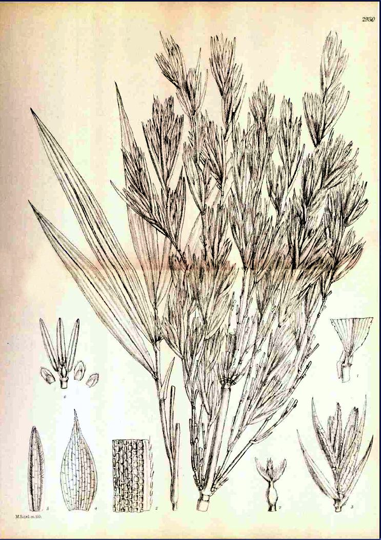 Illustration of Thamnocalamus tessellatus (Nees) Soderstr. & R.P.Ellis = Arundinaria tessellata (Nees) Munro